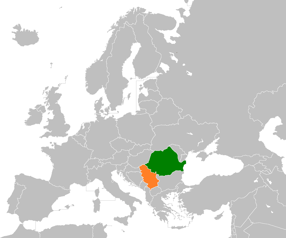 Location of Serbia and Romania on the european continent